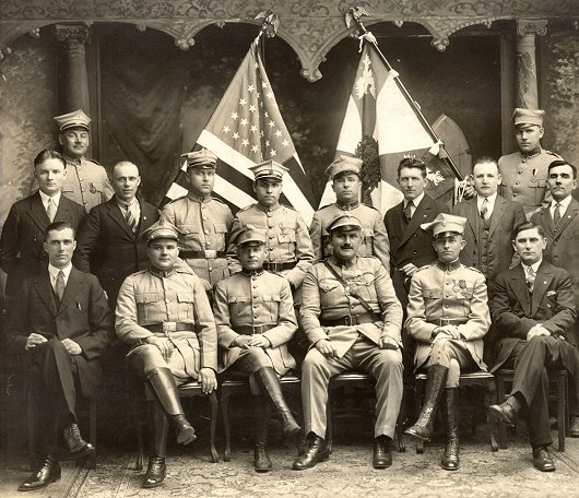 "Polish Army Veterans' Association in America" veterans from Elizabeth, NJ in 1928.